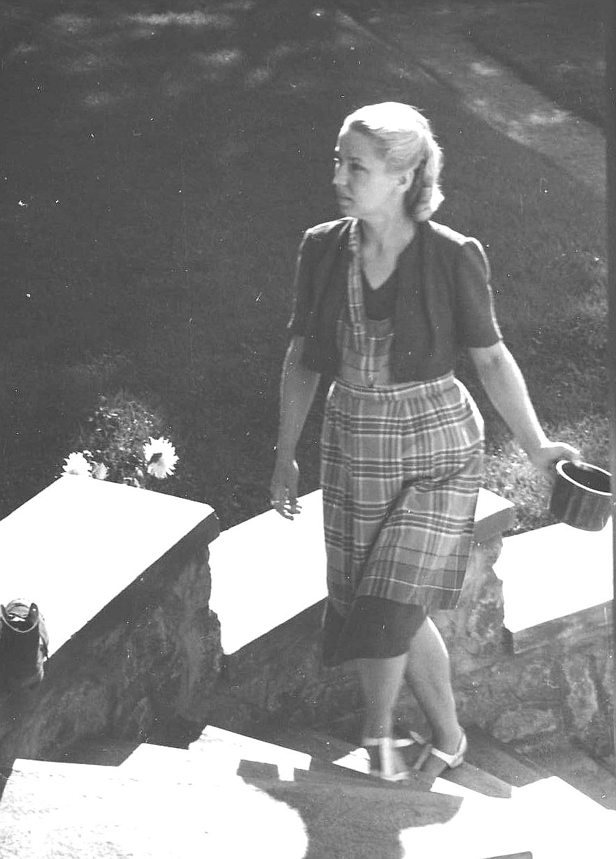 Jarmila Jeřábková at the weekend house of friends in Ledce near Nespeky.